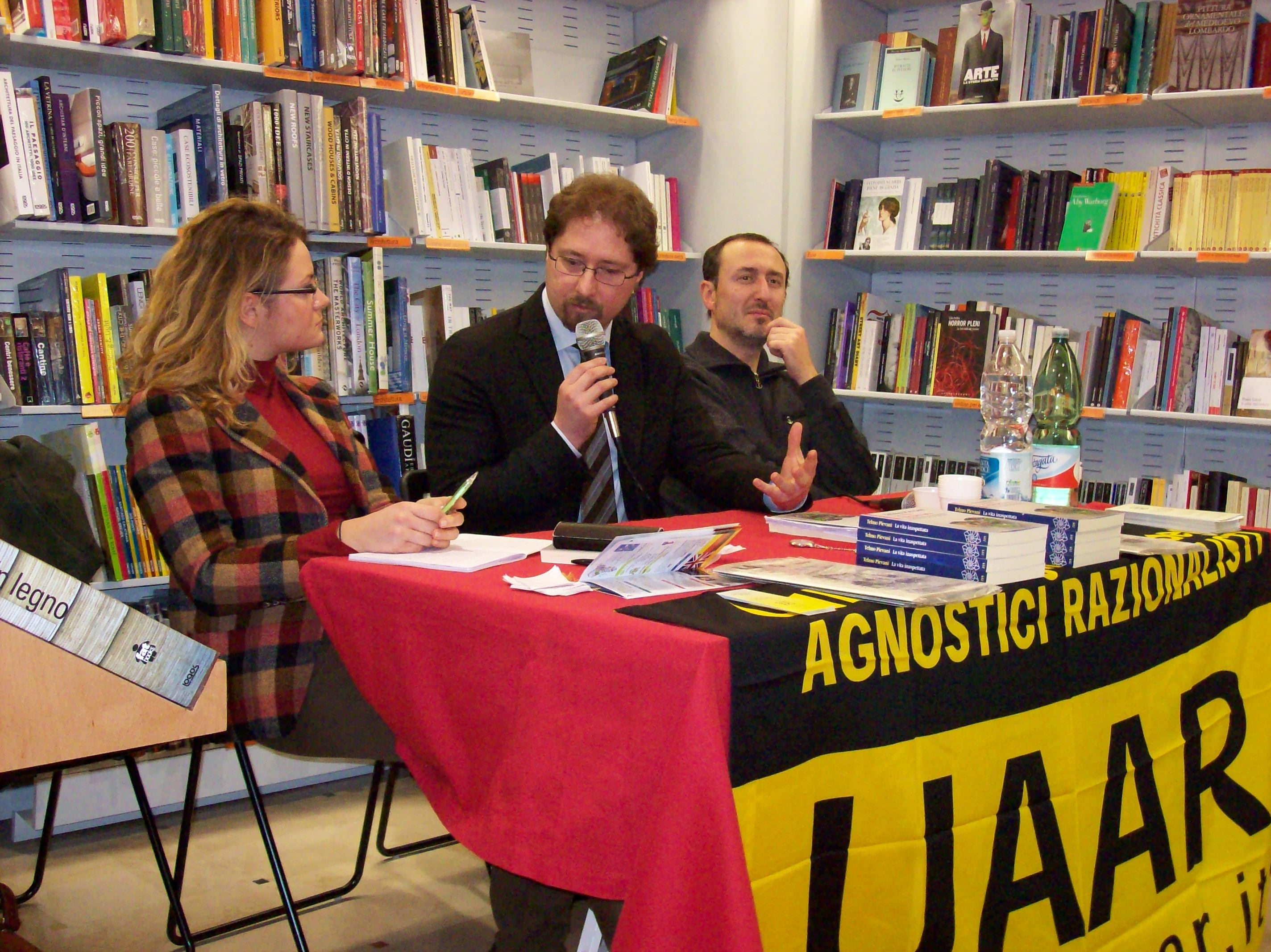 The Italian philosopher Telmo Pievani in Rome at the 2012 Darwin Day organised by UAAR; at his side Raffaele Carcano, secretary of UAAR